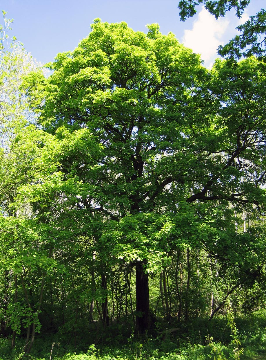 Wild Service Tree (Sorbus torminalis) – full tree. Gamlingay Wood, Cambridgeshire, is a small ancient wood which has been copiced since at least the 13th century. It is a Site of Special Scientific Interest (SSI) in part because it contains one of the last remaining pockets of truly wild Wild Service Trees in Britain.